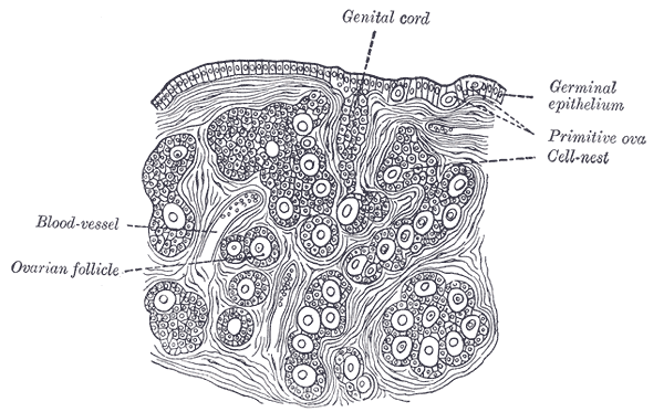 Section of the ovary of a newly born child. (Waldeyer.)